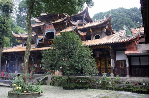 Taihu Temple (Ya'an Yunfeng Si) Architecture